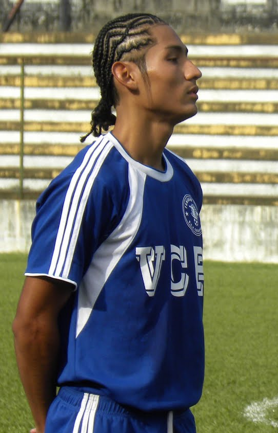 Peralta en su paso por el VCP, club en el que debutó en primera división